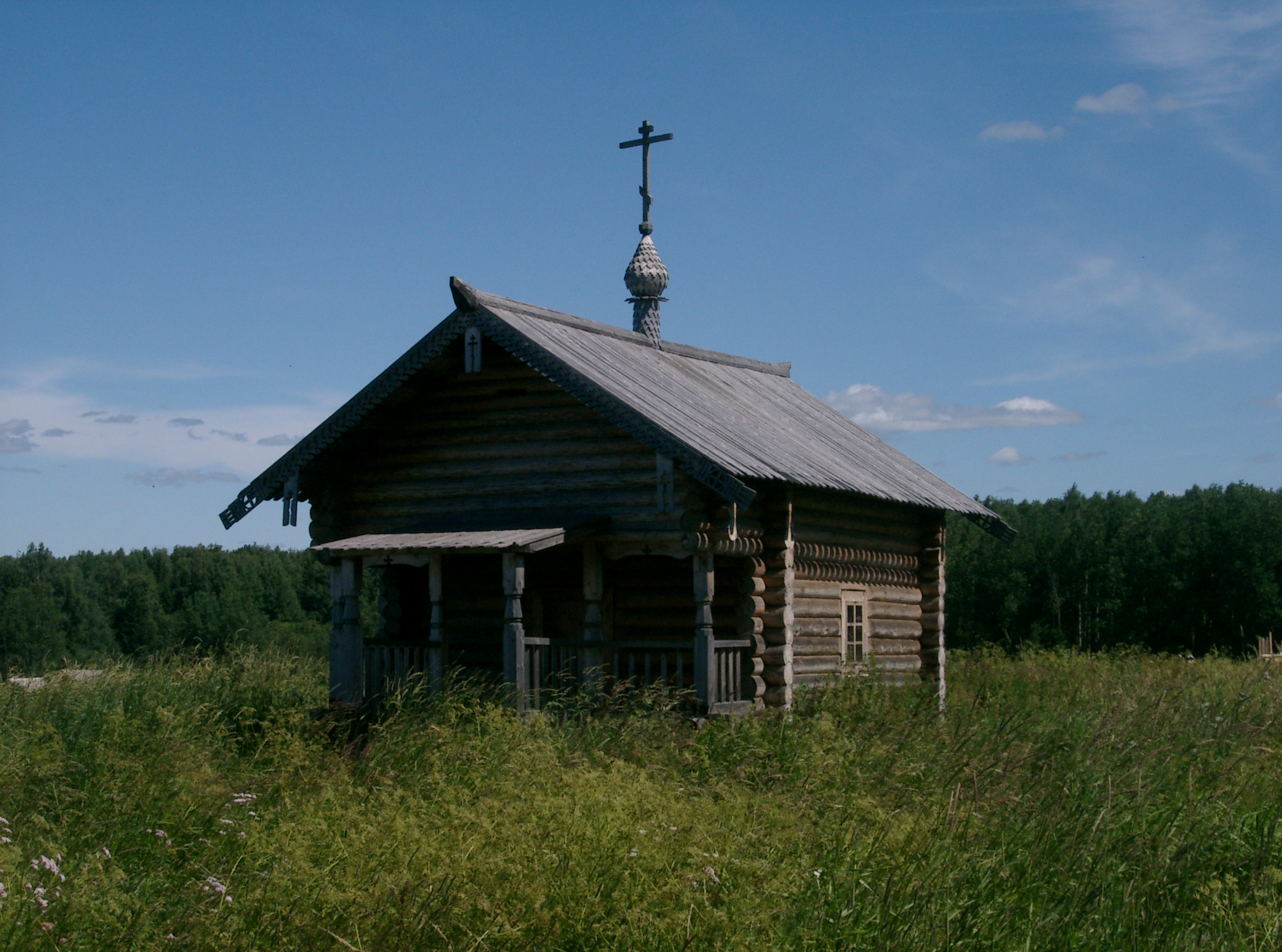 Chapel of Iliya the Prophet, from the village of Grigorovskaya of Verkhovazhsky District, now located in Semyonkovo Ethnographic Open Air Museum, Vologda Oblast, Russia